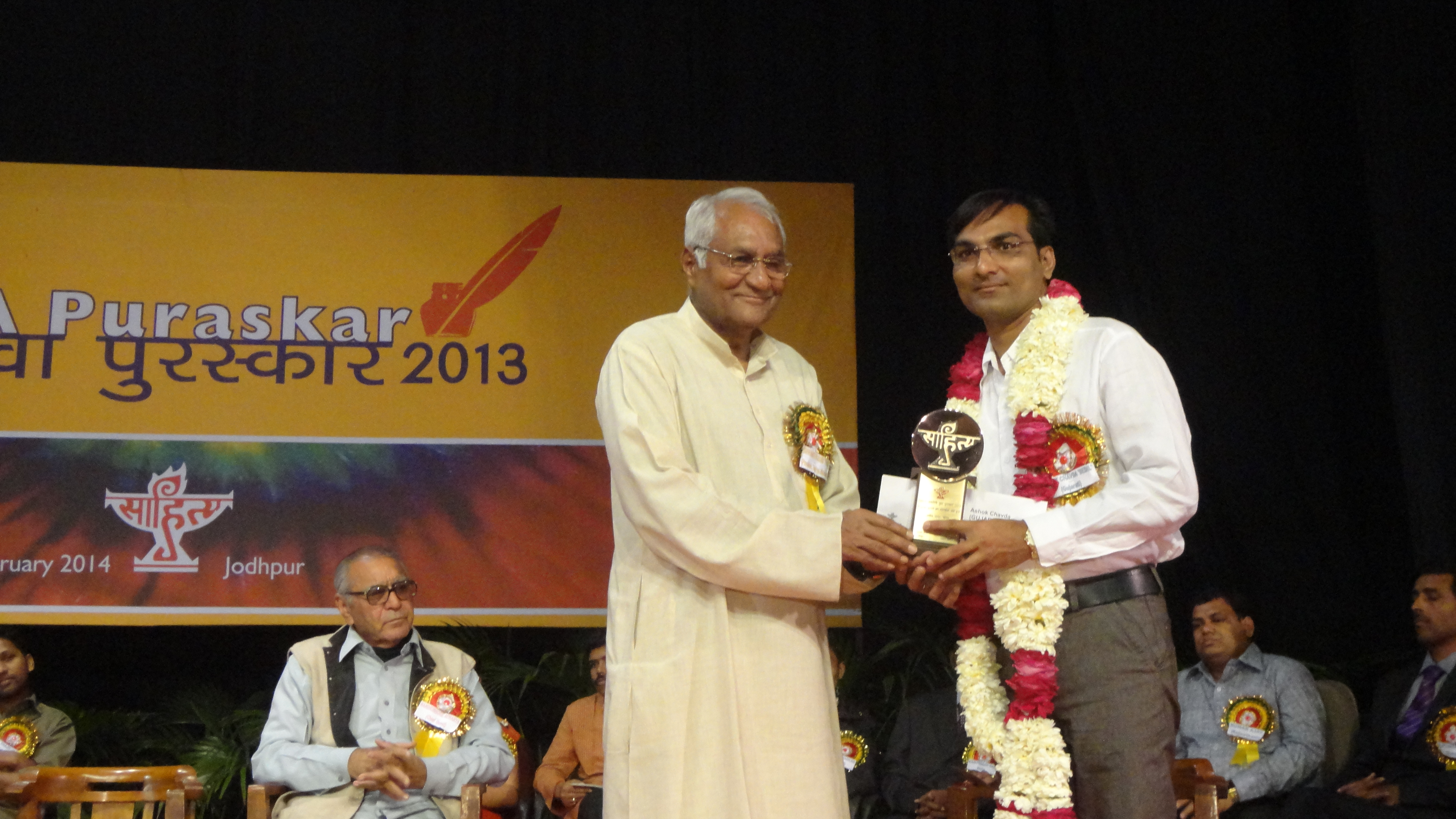 Ashok Chavda at Sahity Alademi, New Delhi on the event of Yuva Puraskar - 2013